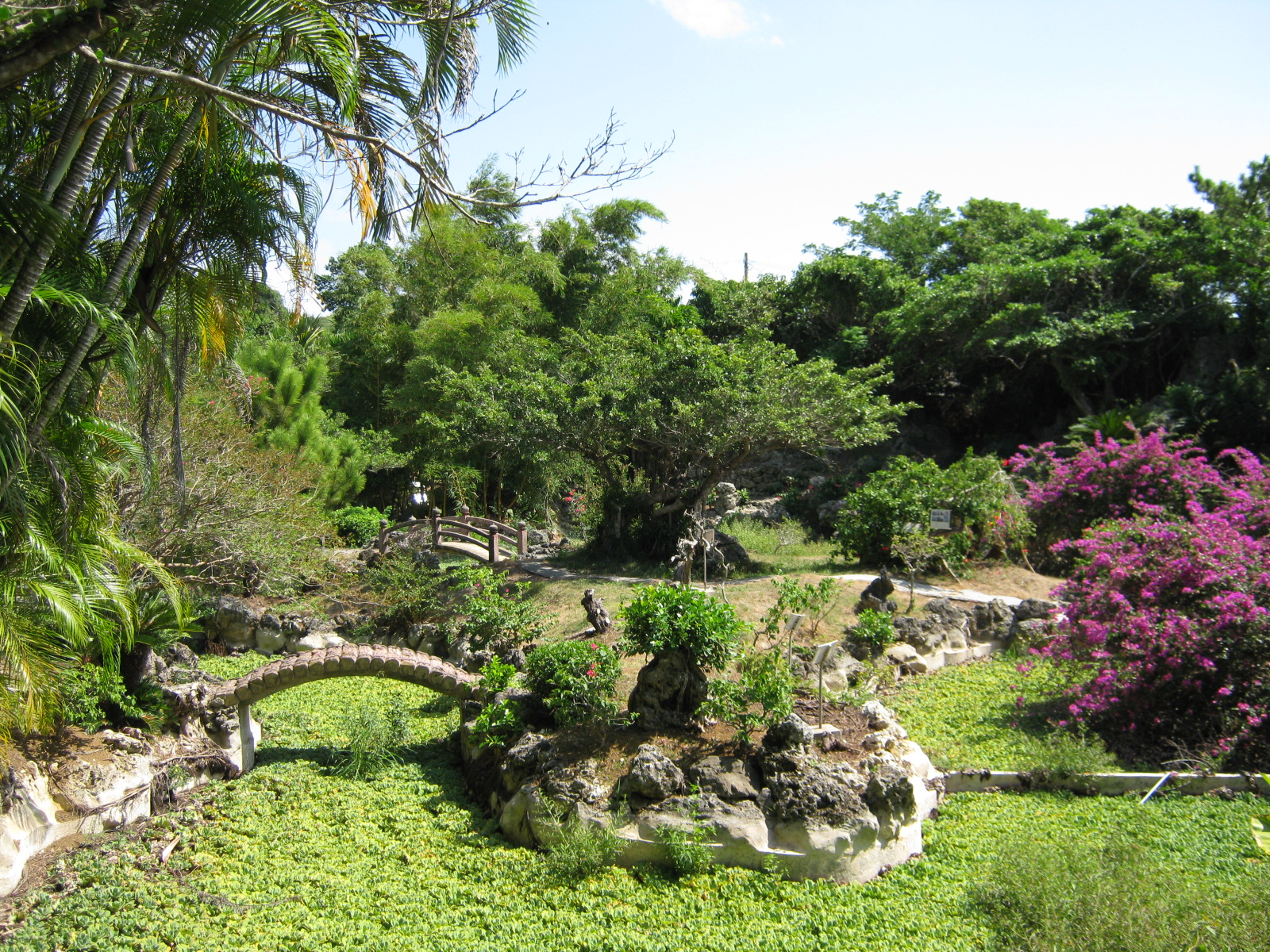 Yunnu Rakuen.